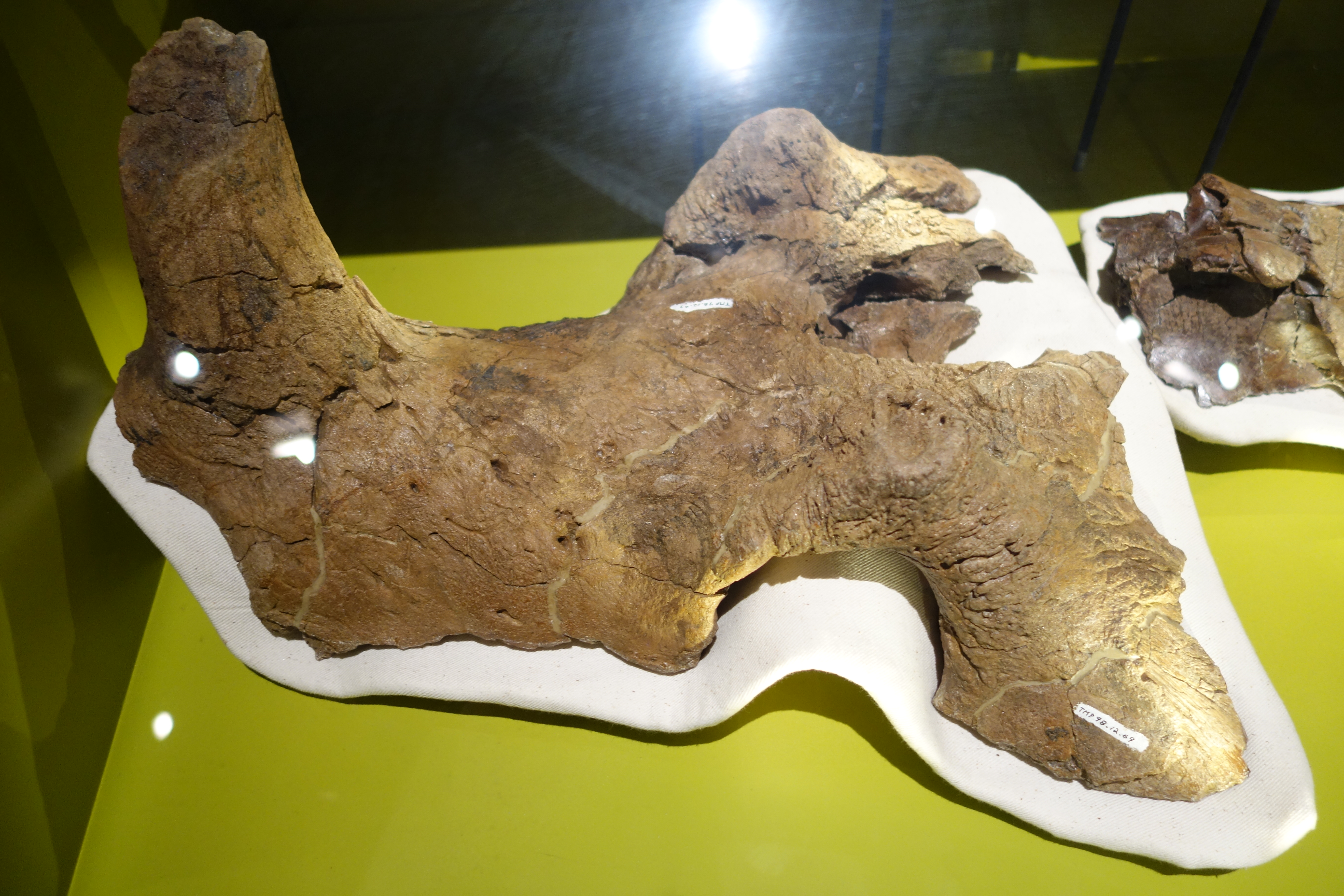 Front part of the skull of Centrosaurus brinkmani, from the Dinosaur Provincial Park, Alberta. On display at the Royal Tyrrell Museum, Alberta.